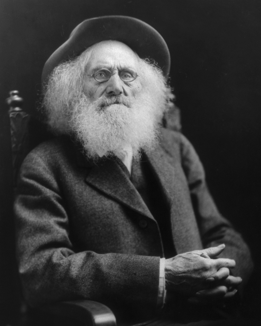 American Oregon Trail pioneer and writer Ezra Meeker (1830-1928)